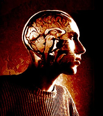 This was an emotional creation. I usually dislike visual metaphors but I like the way this one turned out.